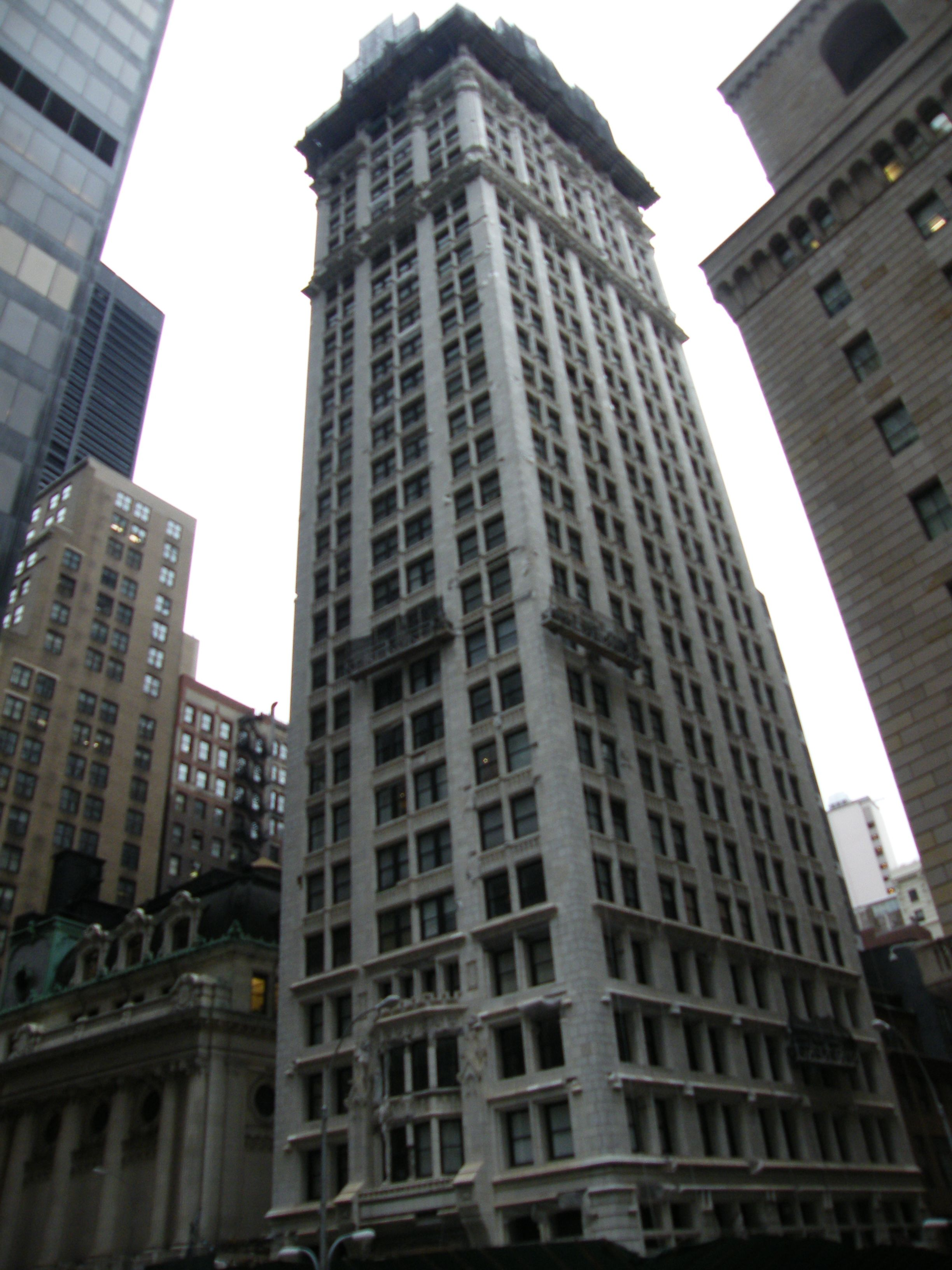 55 Liberty Street on National Register of Historic Places in New York City